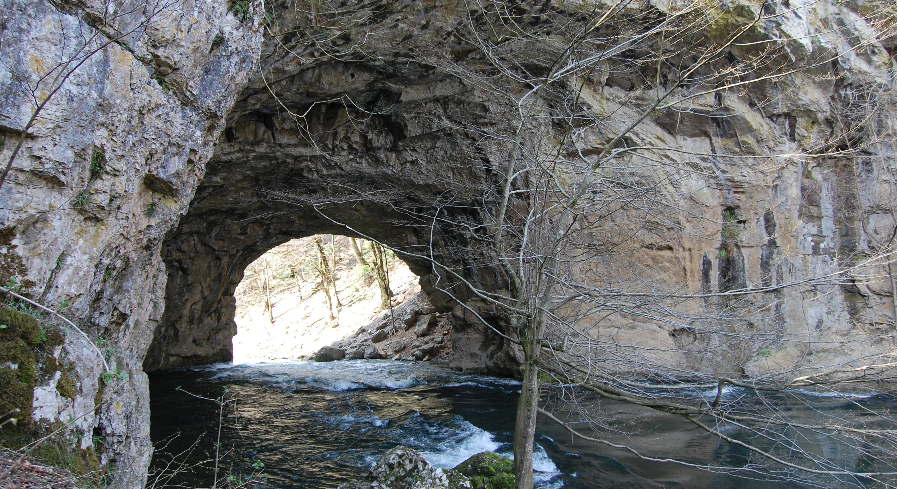 River Rak under big nature bridge in Rakov Škocjan Regional Park (Slovenia, 2008)